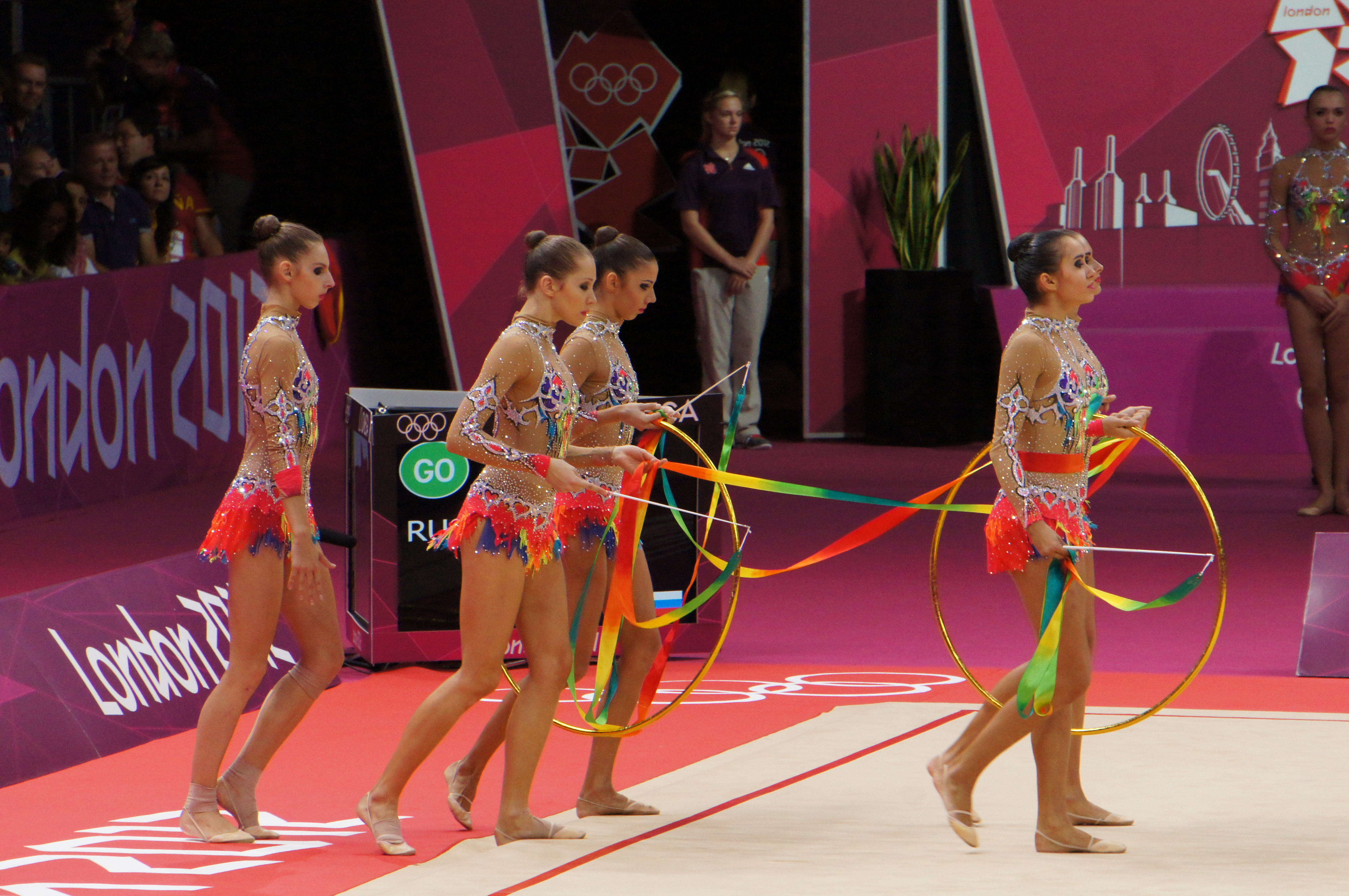 Rhythmic gymnastics at the 2012 Summer Olympics